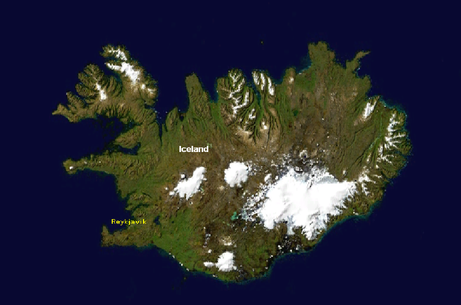 Iceland. Satellite view.